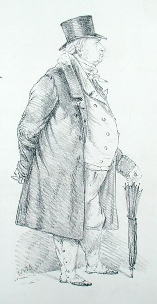 John Fuller (1757-1834)